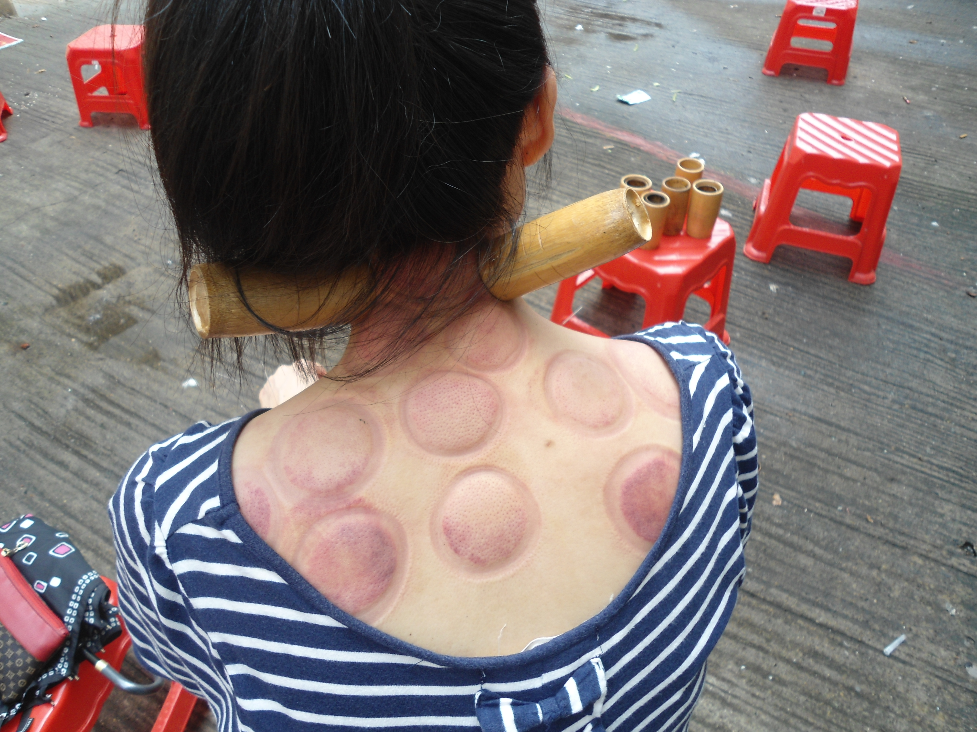 A woman receiving fire cupping in Haikou, Hainan, China.